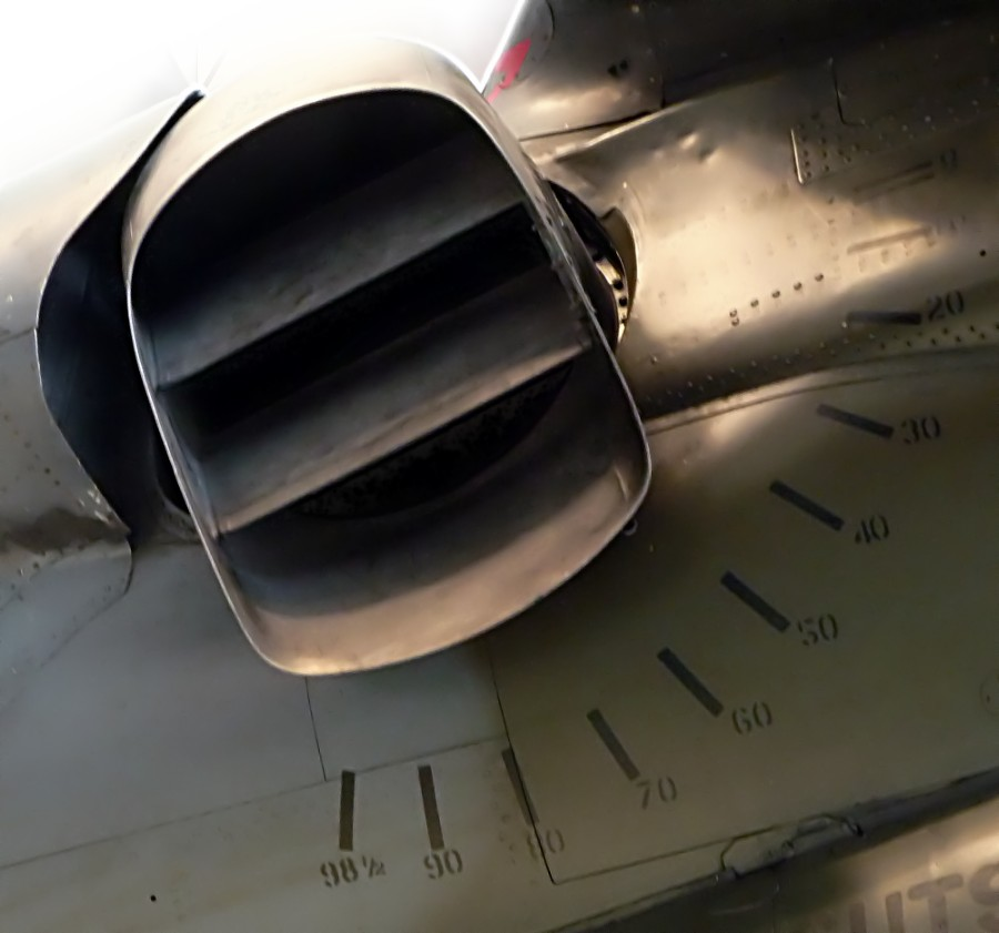 BAE Harrier vectoring nozzle. Photograph taken at the London RAF Museum.